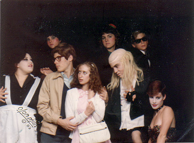 This was our Rocky Horror cast in Sacramento. Front: Sid, Brad, Lemming, me, Lil Michelle. Back: Jennifer, Kathleen, Mouse. Mid 1985.